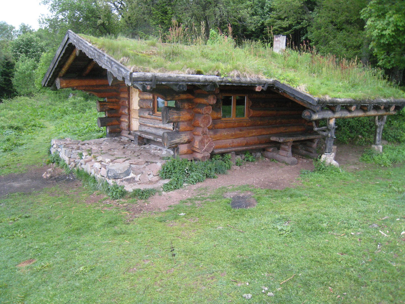 Hut of the Haute-Bers, Rimbach-près-Masevaux, France